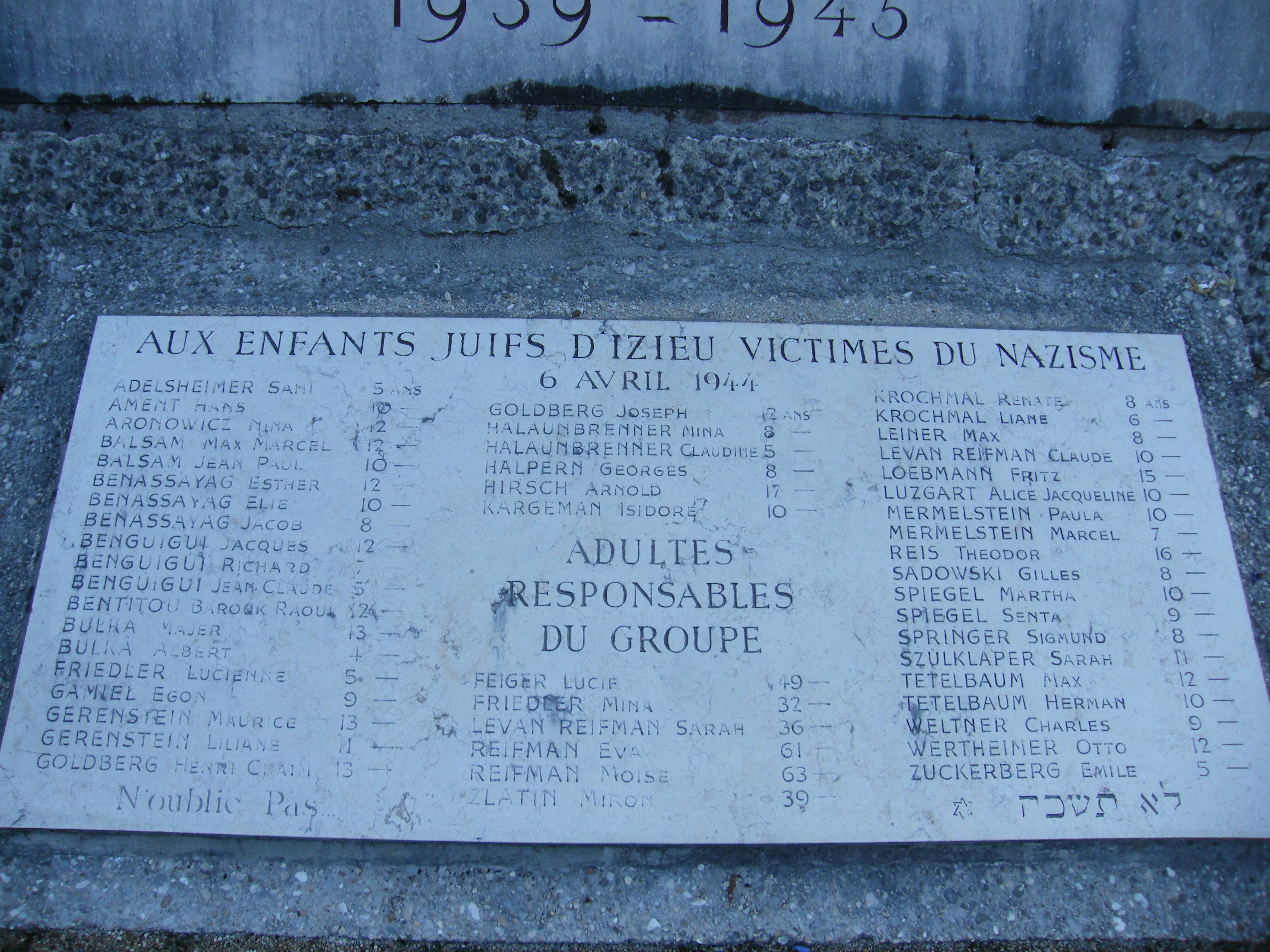 A commemorative plaque commemorates the 44 Jewish children of Izieu, of which 42 were exterminated in Auschwitz and 2 others in Estonia.